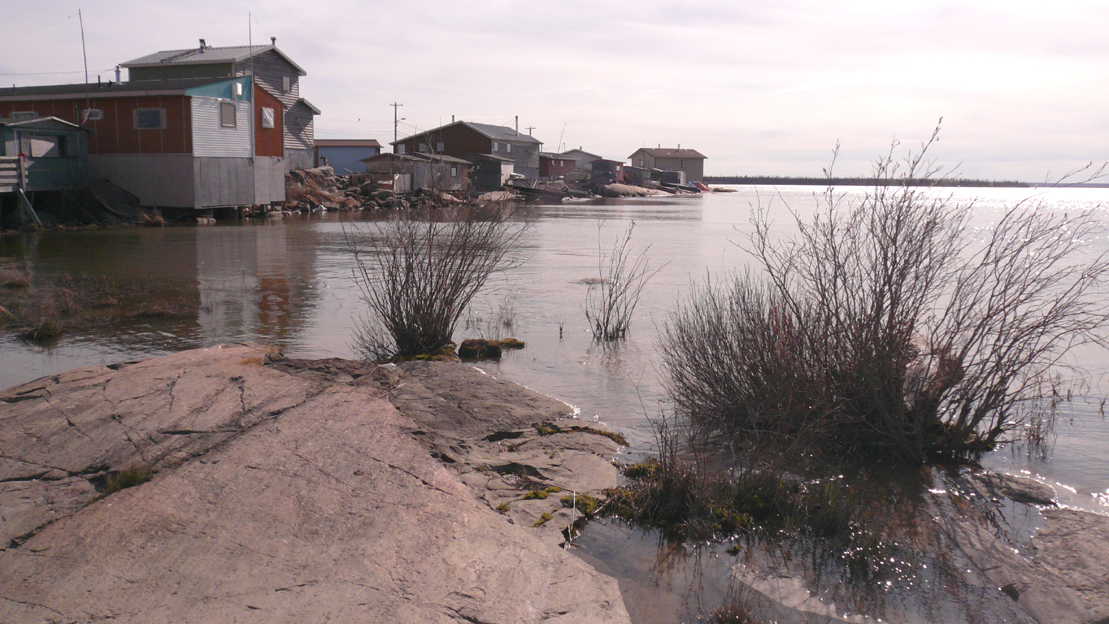 Rae Edzo, NWT